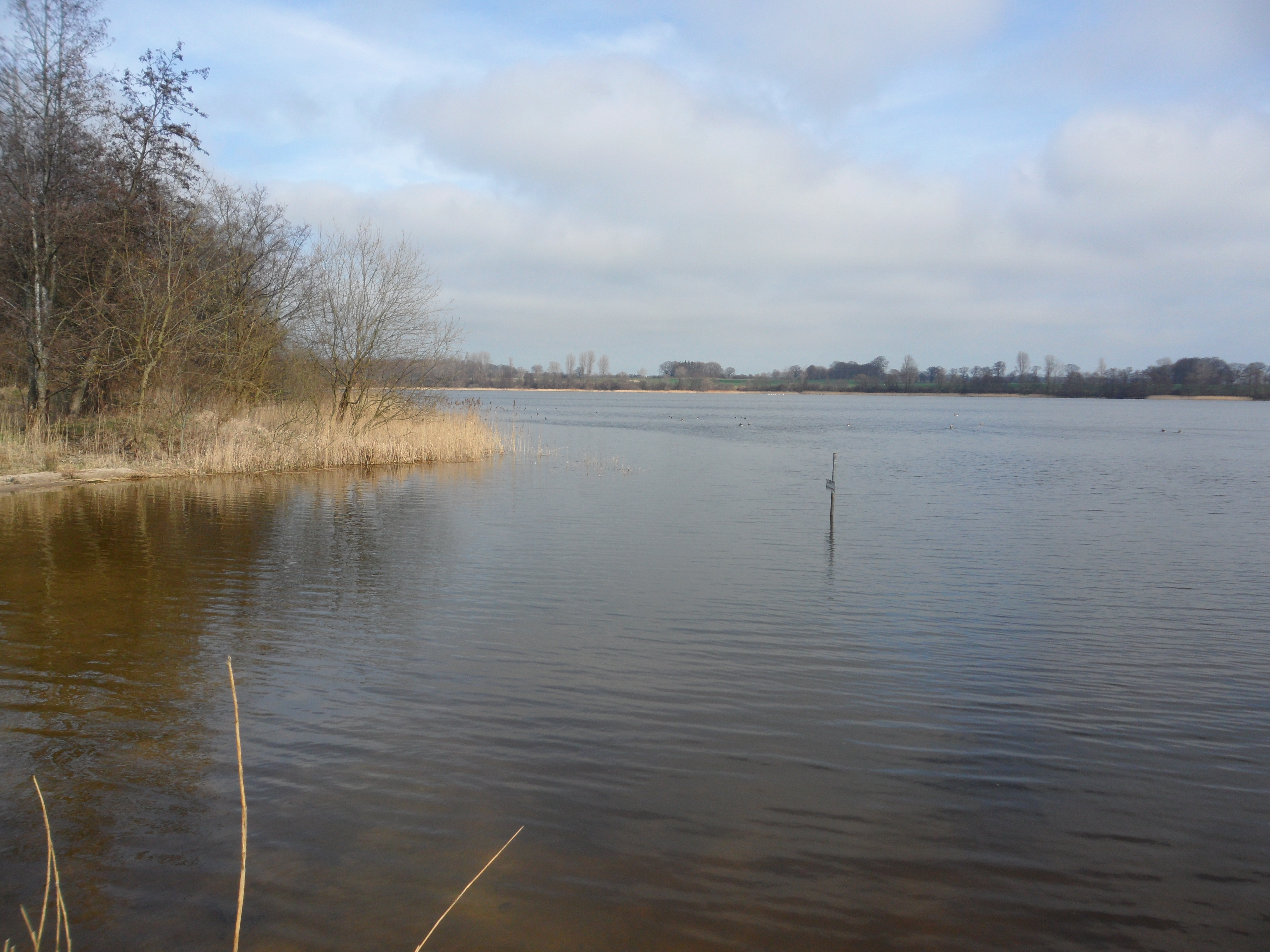 Stolper See from the bath place in the village Stolpe (from west)